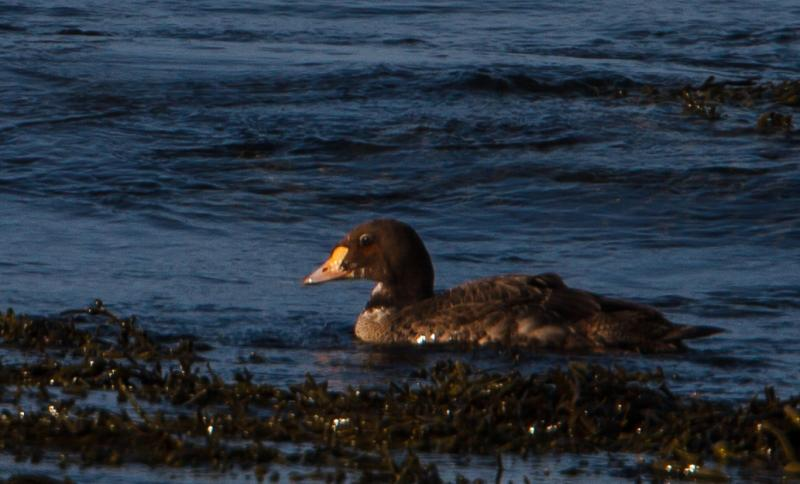 King Eider / Æðarkóngur Somateria spectabilis, 1st winter male, Akranes, Iceland